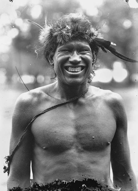 Míllet smiling, half-figure, Puerto 14 de Mayo, 18x13 cm